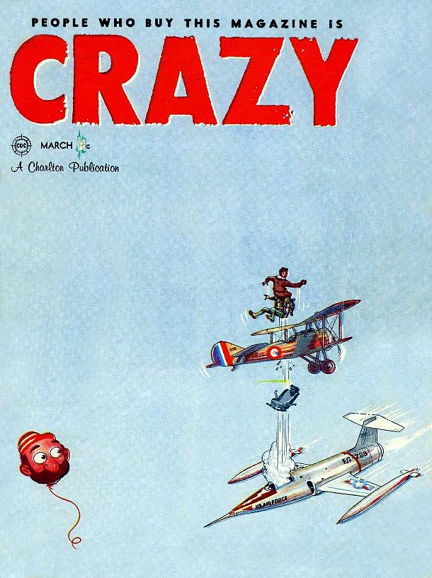 Front cover of This Magazine is Crazy vol. 4, number 8 (Charlton, March 1959). The magazine appeared to be a good-natured parody of Mad, utilizing the talents of some of the latter's artists and writers.